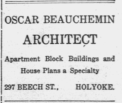 Advertisement for Oscar Beauchemin, early 20th century commercial architect whose work was prominent in the shaping of Holyoke, Massachusetts and the Greater Springfield area.